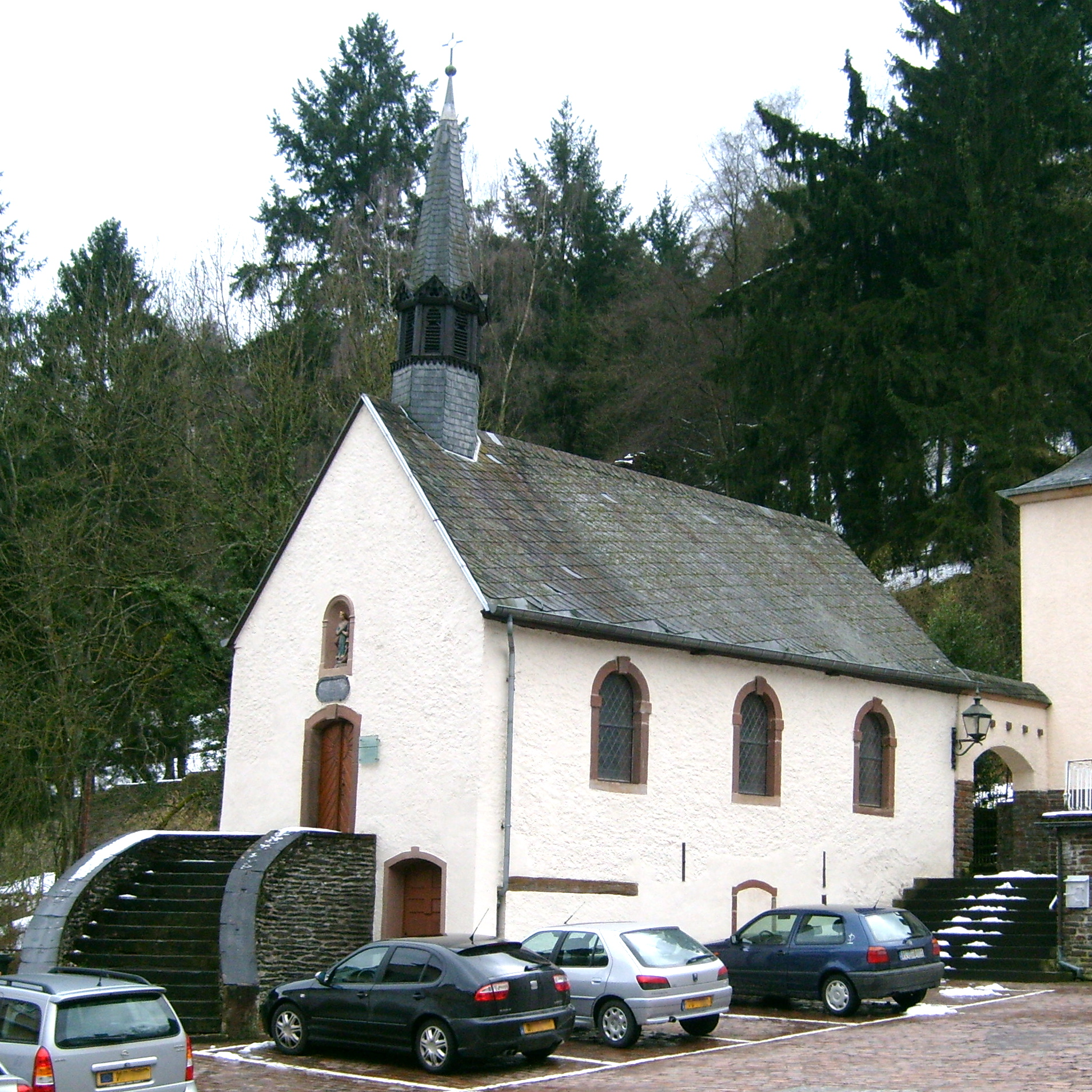 Chapelle de la sodalité mariale, Vianden, built 1761.